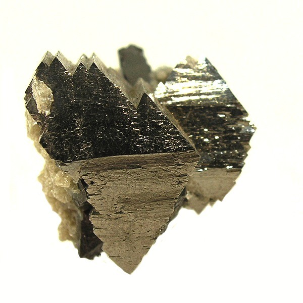 Arsenopyrite Locality: Yaogangxian Mine, Yizhang County, Chenzhou Prefecture, Hunan Province, China (Locality at ) Just a KILLER arsenopyrite thumb from this mine! 2 x 2 x 2 cm